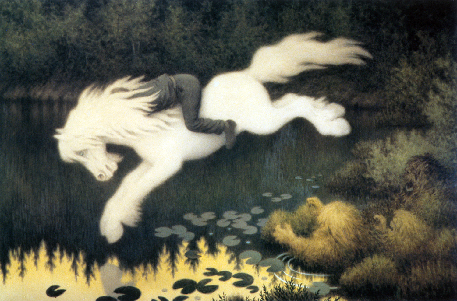 the horse depicting the Nix